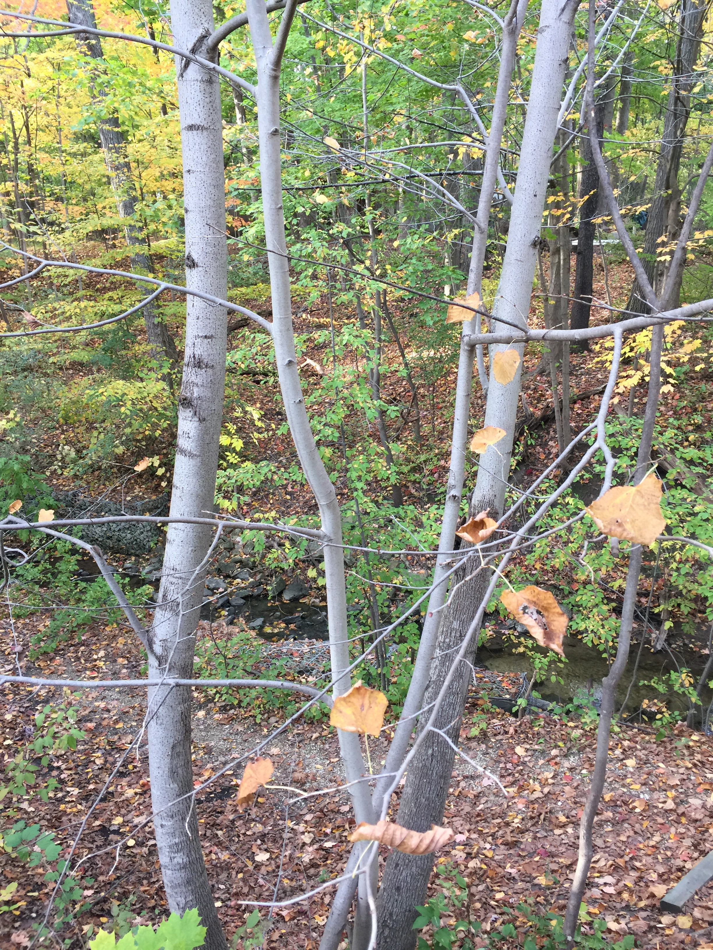 This is a young American linden in a ravine.